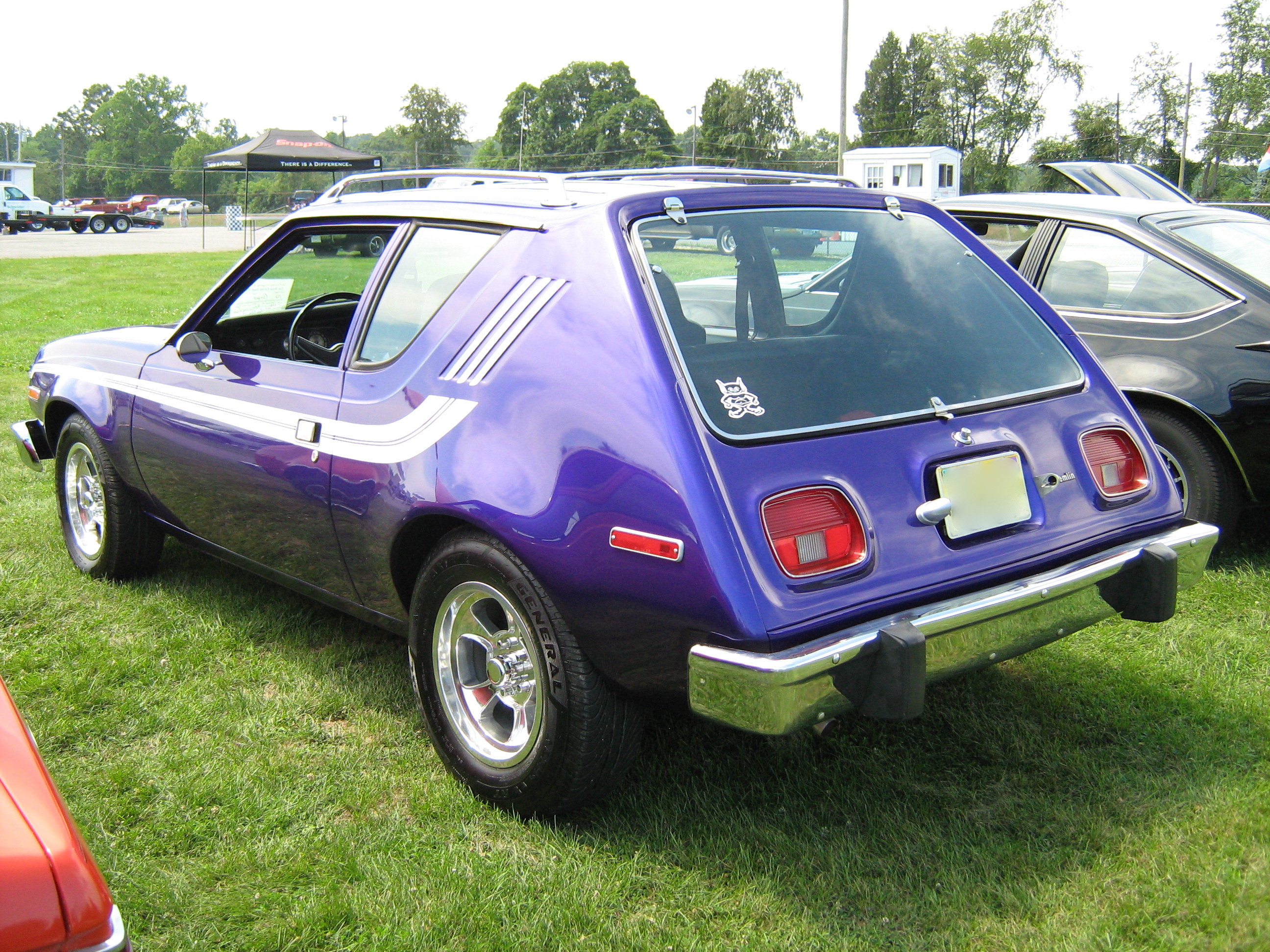 1977 AMC Gremlin (base model) made by the American Motors Corporation (AMC). Left rear view - note: aftermarket wheels. Picture taken at an AMC show held at the Cecil County Dragstrip in Maryland.